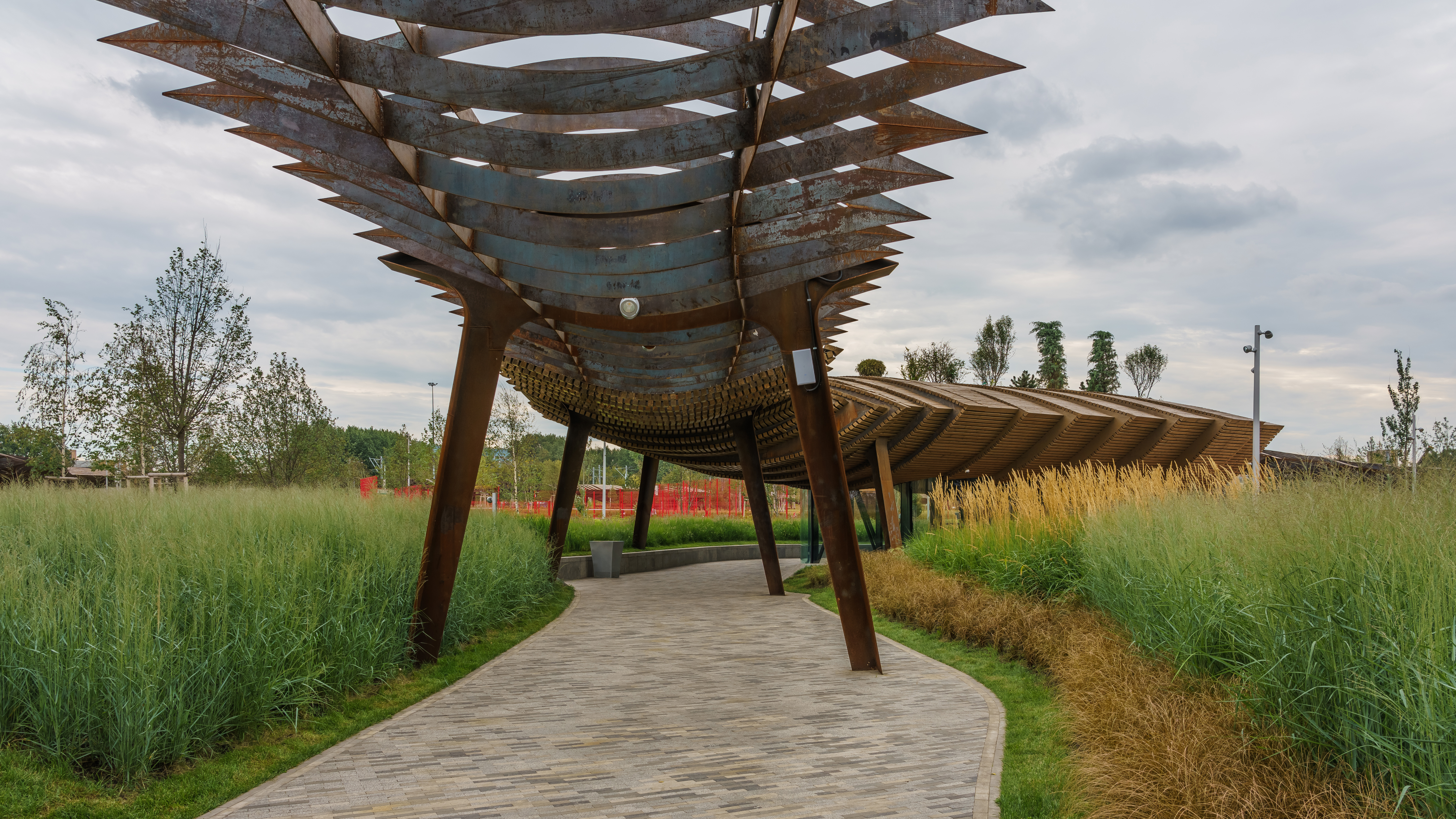 Tyufeleva Grove Park on former ZiL factory area in Moscow, Russia